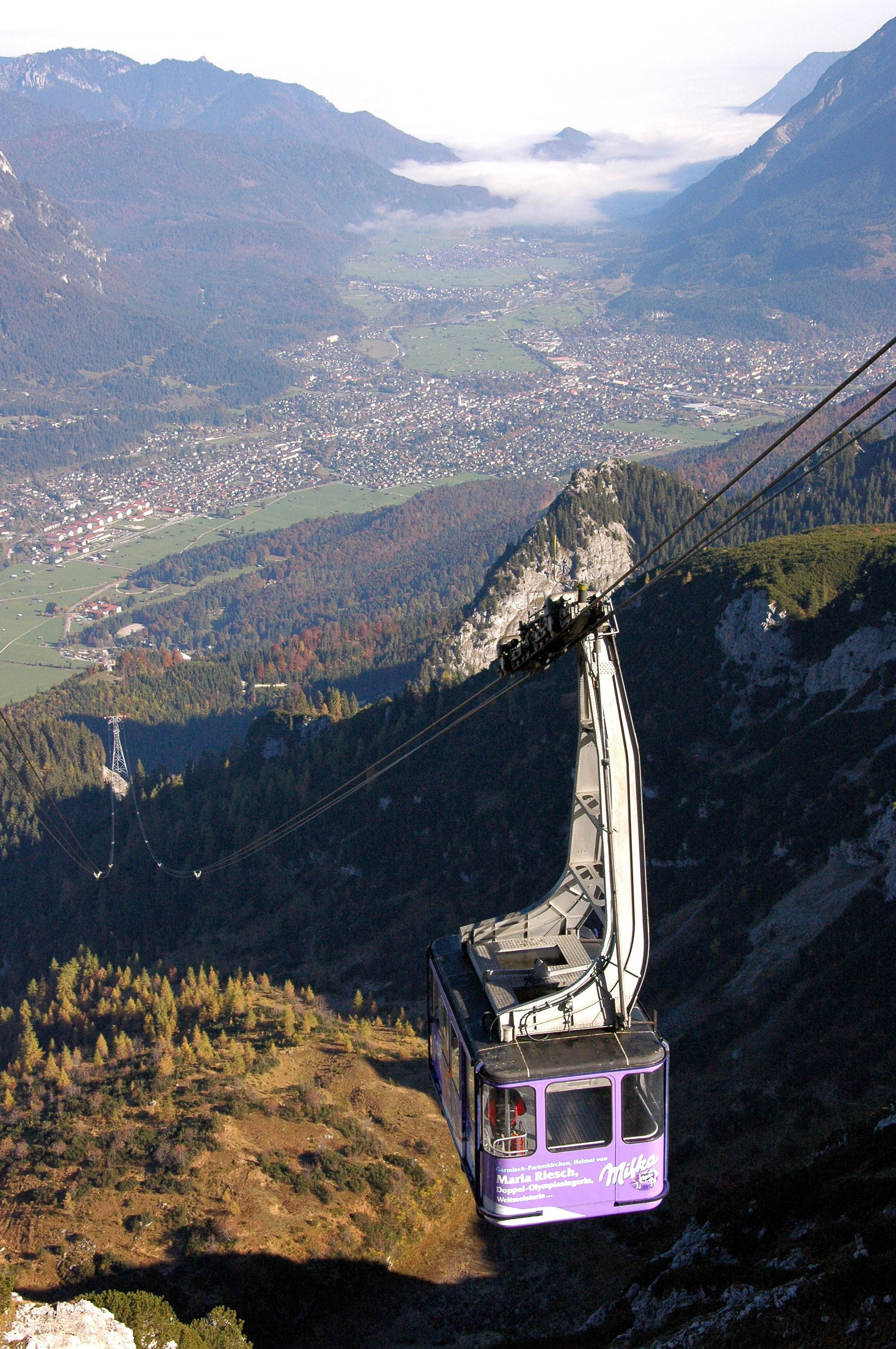 A cabin of the Alpspitz cableway going down. At the background Garmisch-Partenkirchen, Burgrain and Farchant.